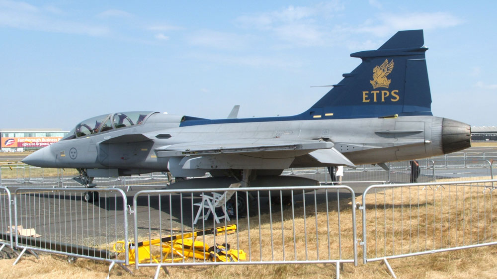 Farnborough, 2006, static display of JAS 39 Gripen